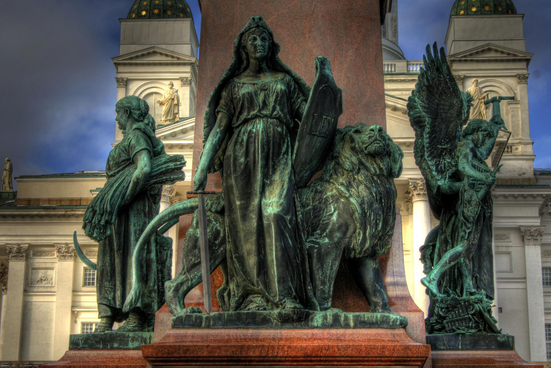 The Finnish Maiden and the Finnish Lion in the monument of Alexander II of Russia at the Senate Square in Helsinki, Finland.